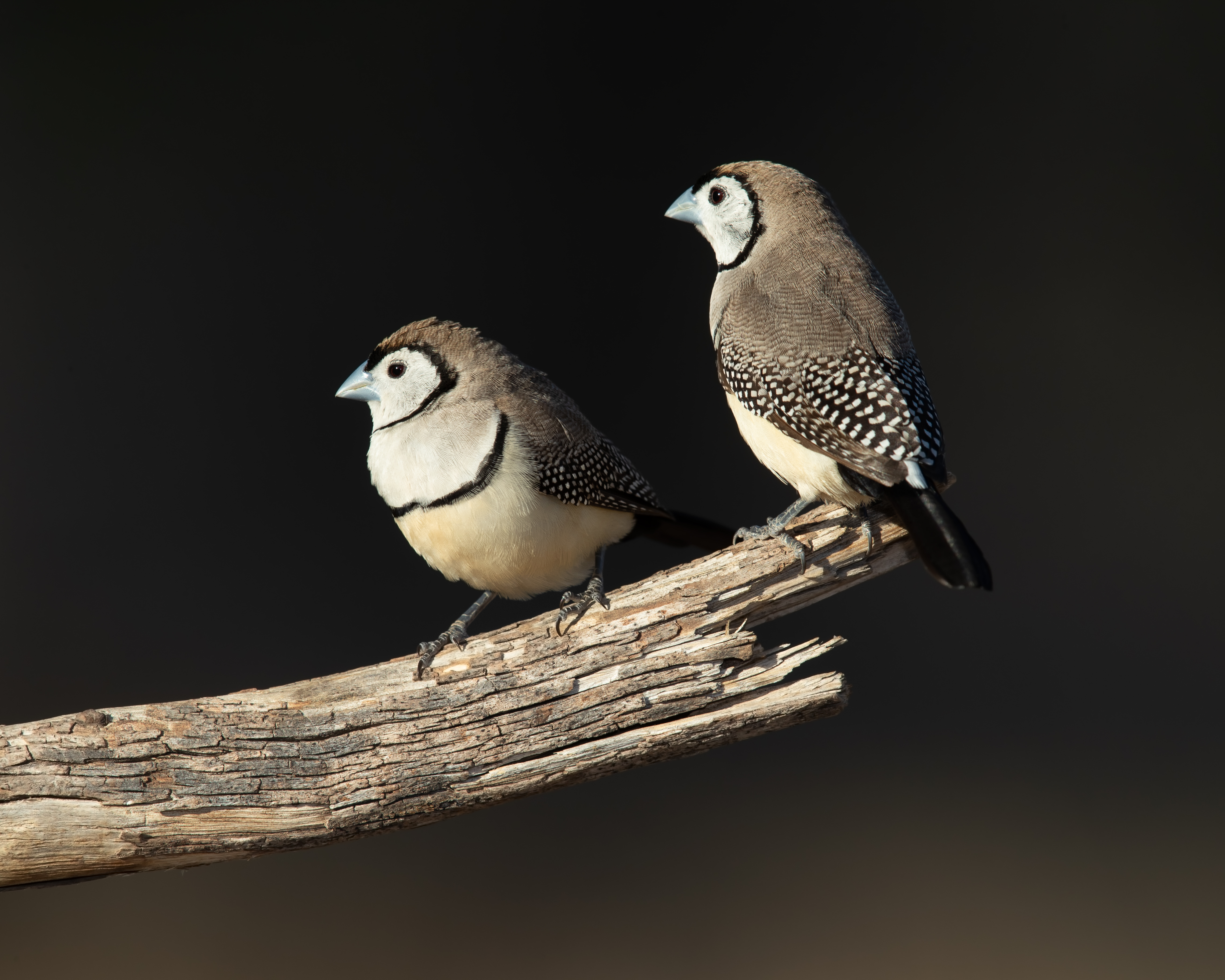 Double-barred Finch (Taeniopygia bichenovii), Glen Alice, Lithgow, New South Wales, Australia